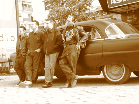 Social Distortion in Hamburg 2005